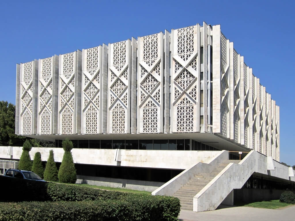 The History Museum of the People of Uzbekistan in Tashkent is the country's premier museum.